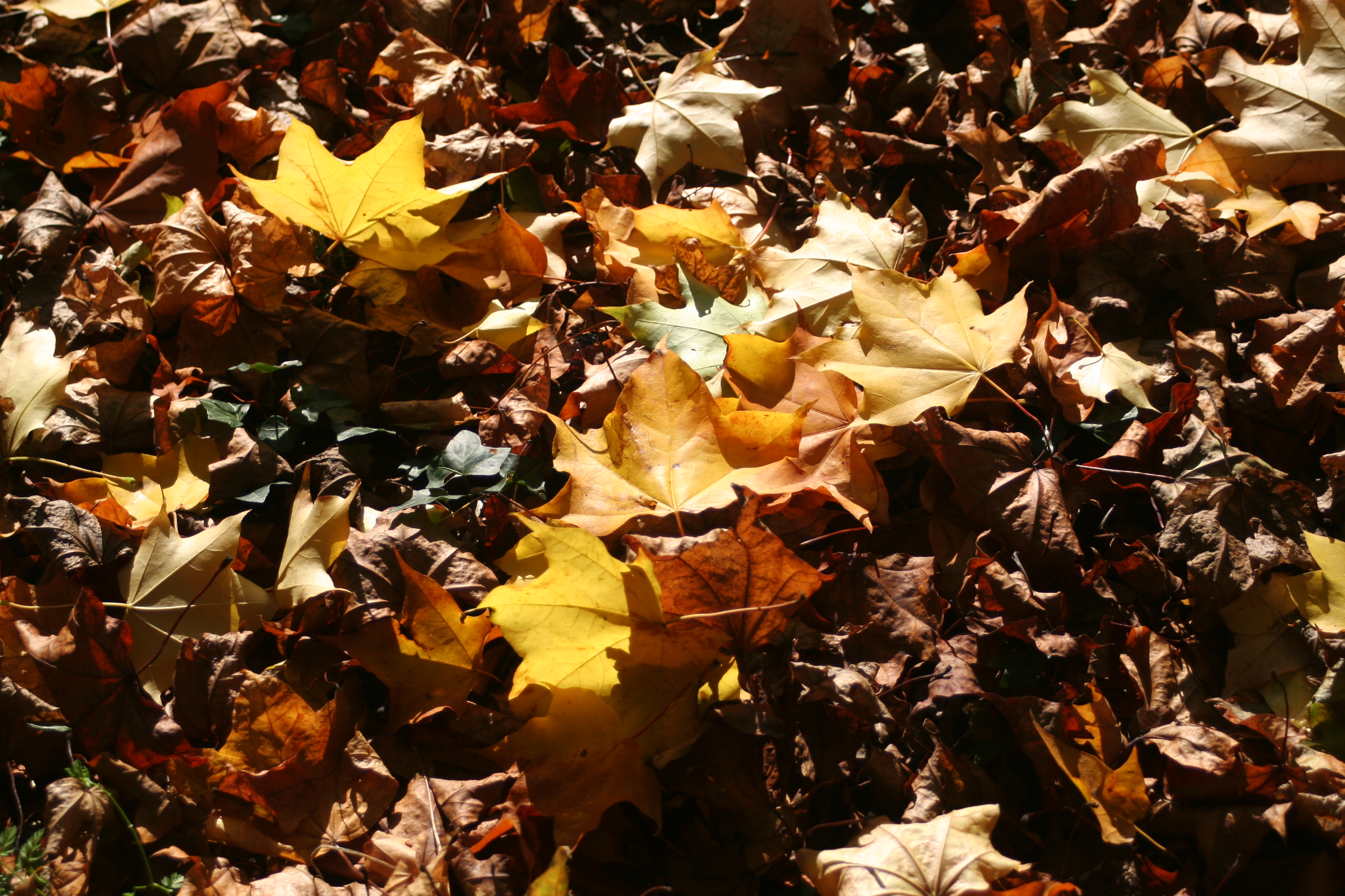 Autumn leaves - by R Neil Marshman (c) - see metadata